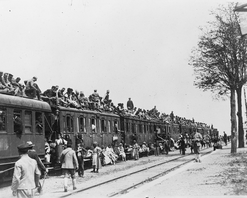 The fourth class passengers on the Roumanian trains travel on the roof, third class usually get nothing better than the running board. First and second class are about on a par with a narrow guage travel in the U.S.A. thirty years ago. The crowded trains are responsible for hundreds of casualties, and the average number of casualties is said to be about one person per train for the entire country. There are always serverl patients in the ARC. Hospital in Bucharest who have been injured by falling from their "perch" on a train